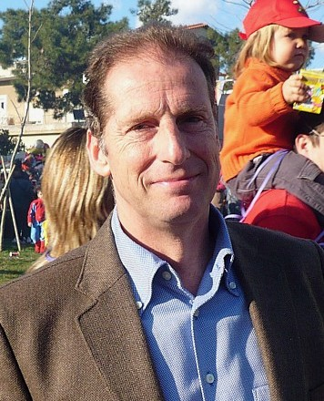 Mayor of Vrilissia 2007-2010